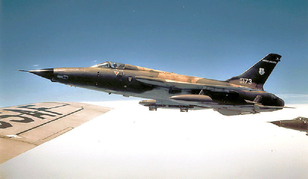 121st Tactical Fighter Squadron - Republic F-105D-5-RE Thunderchief 58-1173. Aircraft retired to MASDC as FK0043 Jun 12, 1981